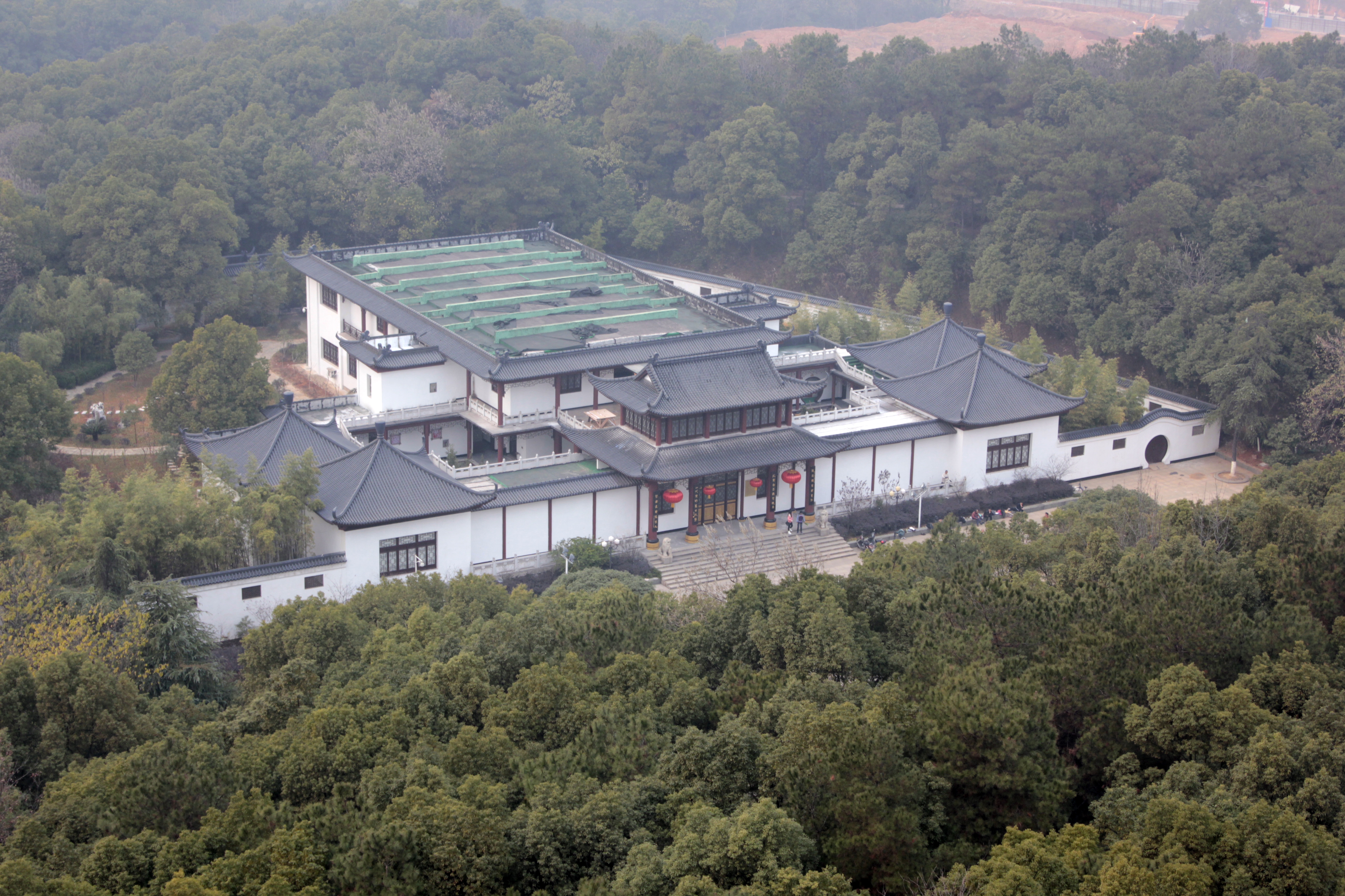 Fu Baoshi art museum, Xinyu Jiangxi